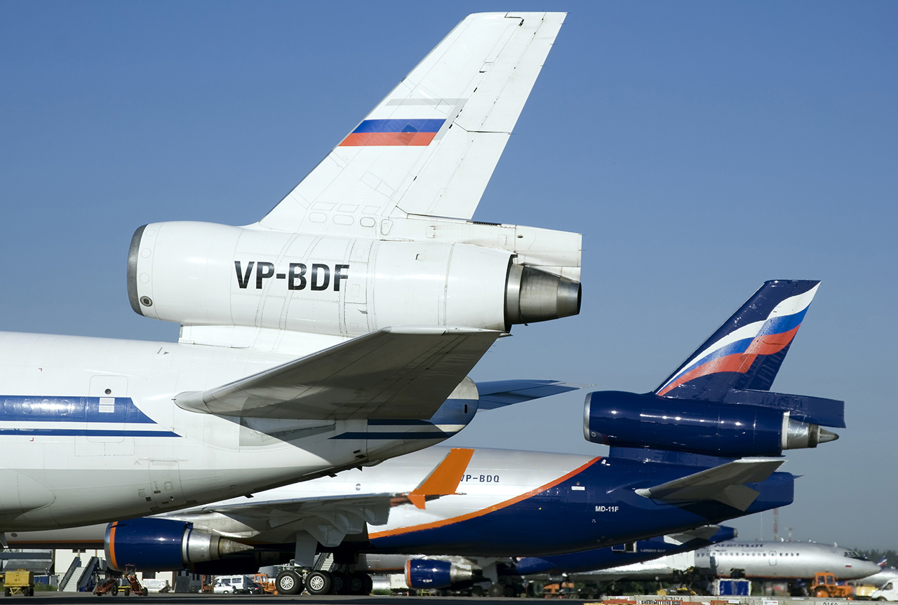 Old and New clour Aeroflot Cargo.